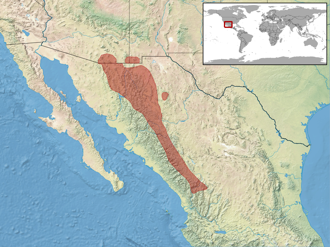 geographic distribution of Crotalus willardi (Native: Mexico; United States)